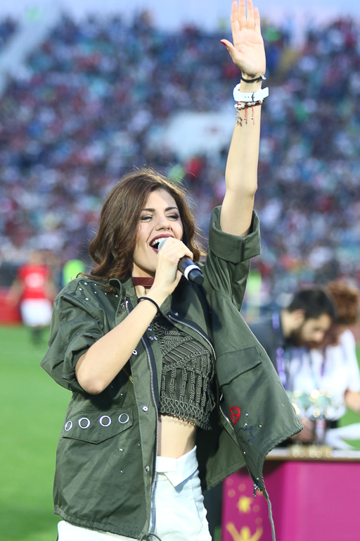 Bulgarian singer Mihaela Fileva